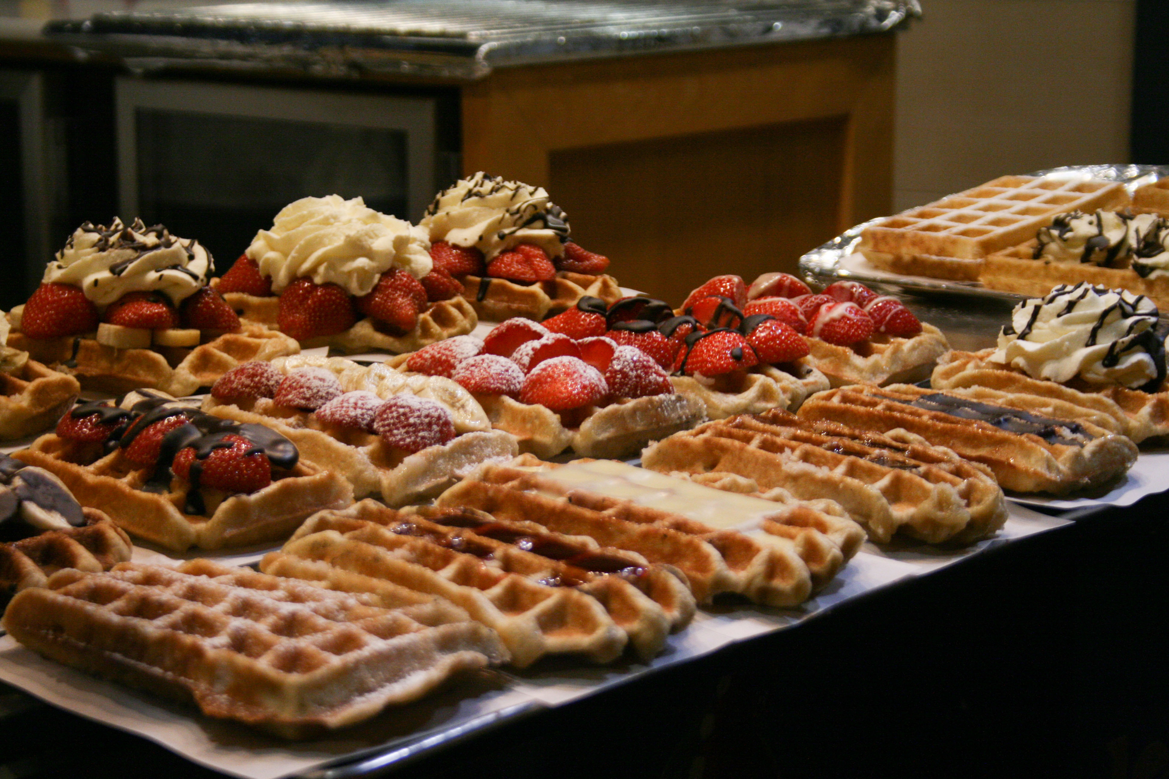 Waffles